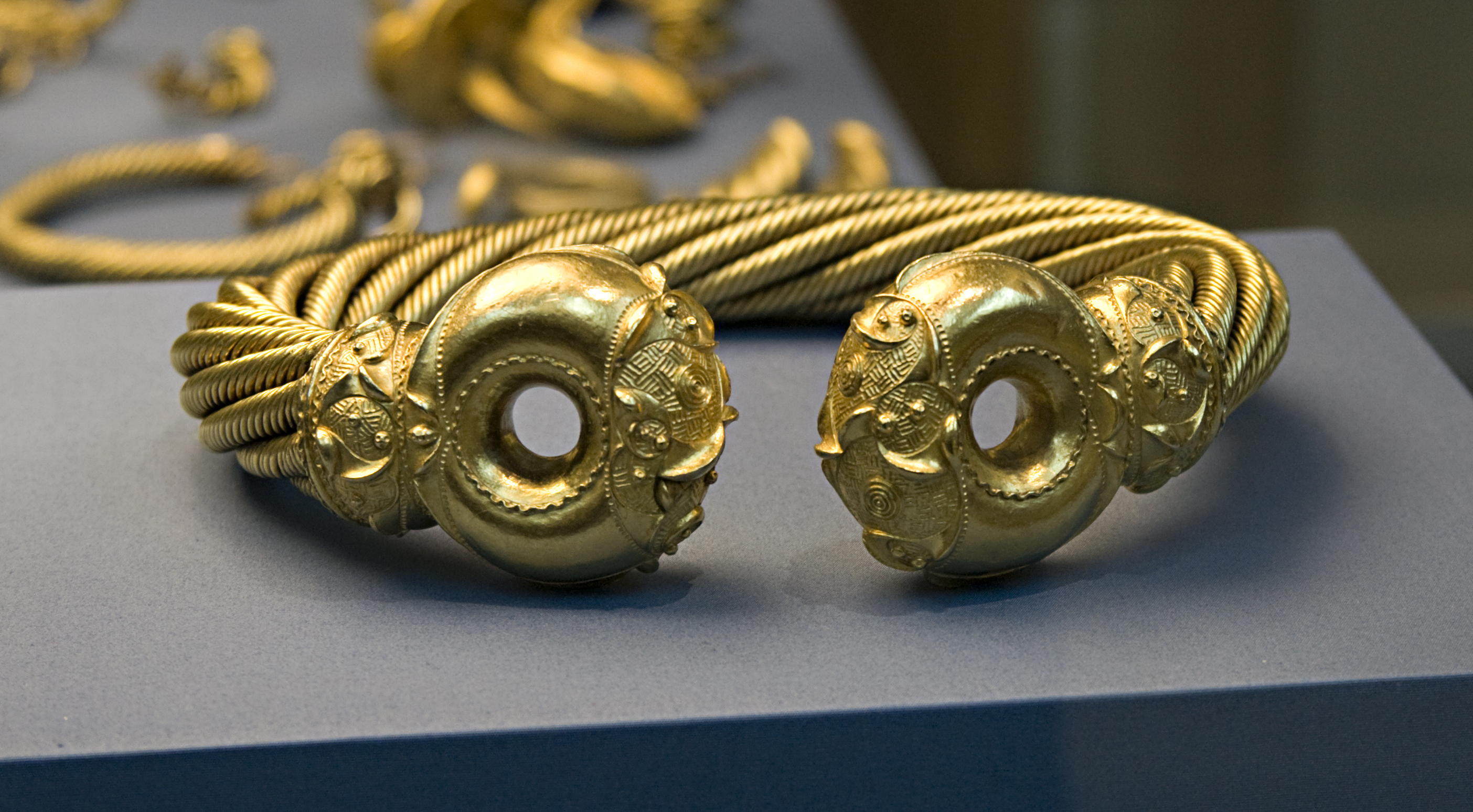 The Snettisham Hoard Great Torc - gold torc from the Snettisham Hoard. Tag on exhibit reads: "The Great Torc, Snettisham, buried around 100 BC. The torc is one of the most elaborate golden objects from the ancient world. It is made from gold mixed with silver and weighs over 1 kg. Torcs are made from complex threads of metal, grouped into ropes and twisted around each other. The ends of the torc were cast in moulds and welded onto the metal ropes. Gift of The Art Fund. P&E 1951,0402.2" See BM database entry for more details.